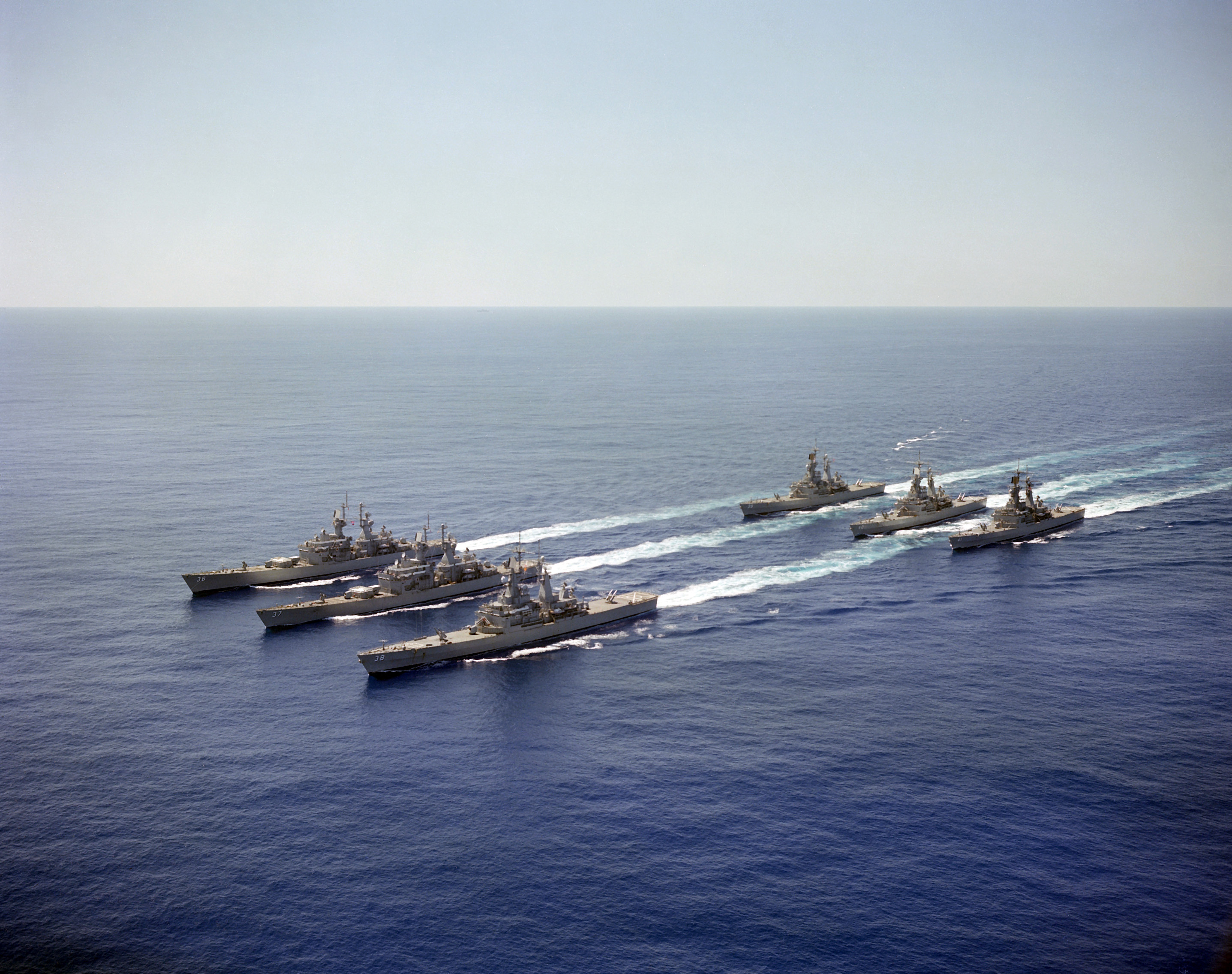 An aerial port bow view of six nuclear-powered guided missile cruisers underway in formation during Exercise READEX 1-81. The ships are, from left to right, front row: USS CALIFORNIA (CGN 36), USS SOUTH CAROLINA (CGN 37), USS VIRGINIA (CGN 38); second row, USS TEXAS (CGN 39), USS MISSISSIPPI (CGN 40) and USS ARKANSAS (CGN 41).